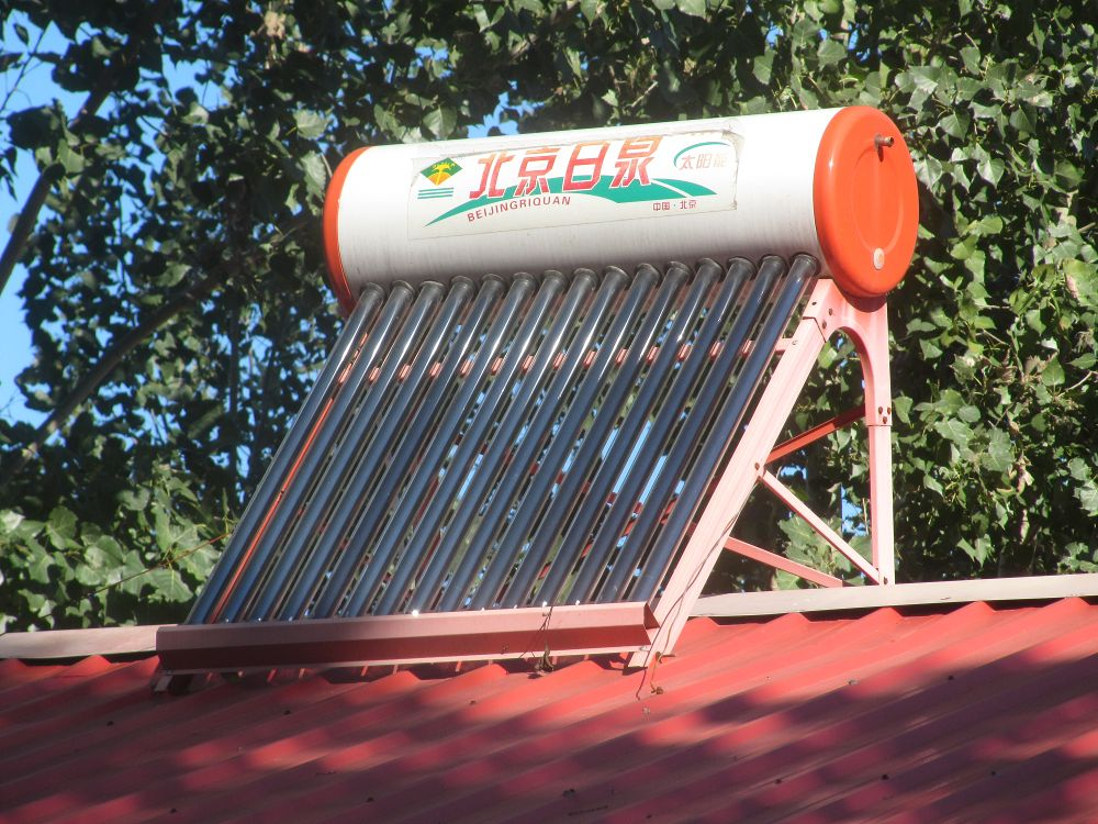 Solar hot water in Beijing. 17° outside, up to 75° at shower.